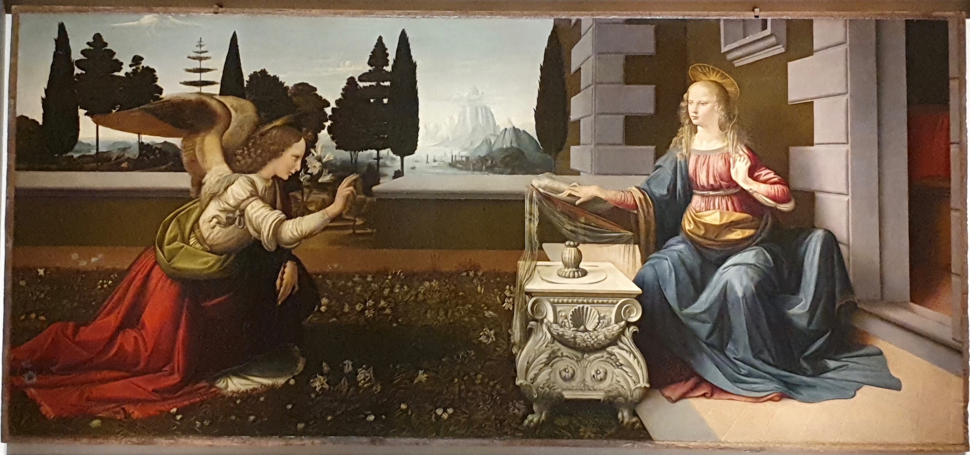 Annunciation by Leonardo da Vinci